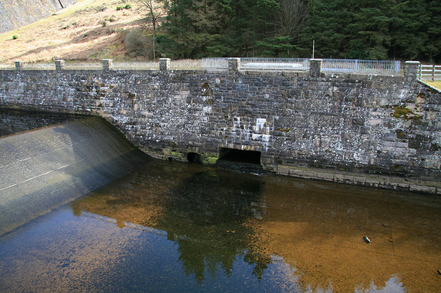 Outfall from Claerwen reservoir A recent (late 1990s) addition to the Elan Valley Reservoir Works was a series of small hydro-electric plants. At Claerwen a 1680kw turbine was installed underground behind the stone revetment, the skylight roof of the buried powerhouse being just visible through the railings. The exhaust water exits at this point.